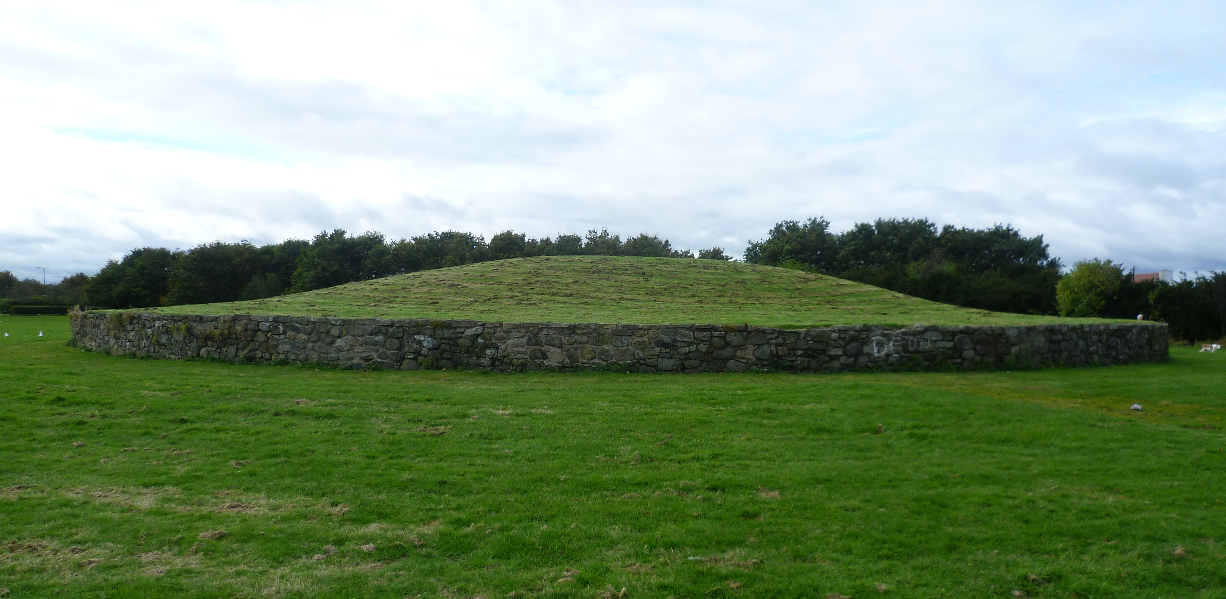 Huly Hill burial mound (with modern surrounding wall), Newbridge